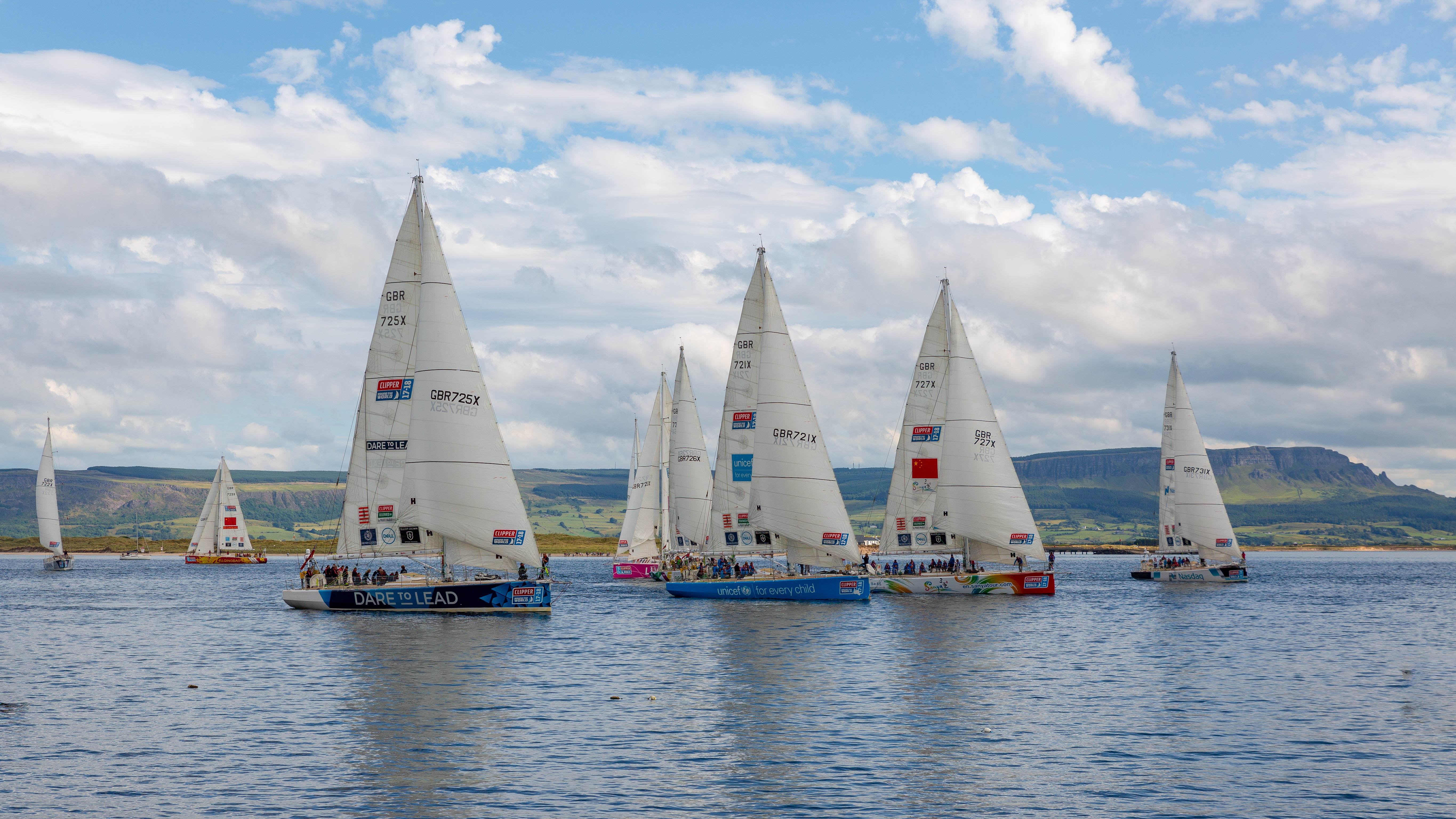 Clippers jockeying for position on Lough Foyle at the start of the last leg to Liverpool of their round the world race. The boat that would eventually win the whole race has a red mark on its sail and it was captained by Wendy Tuck